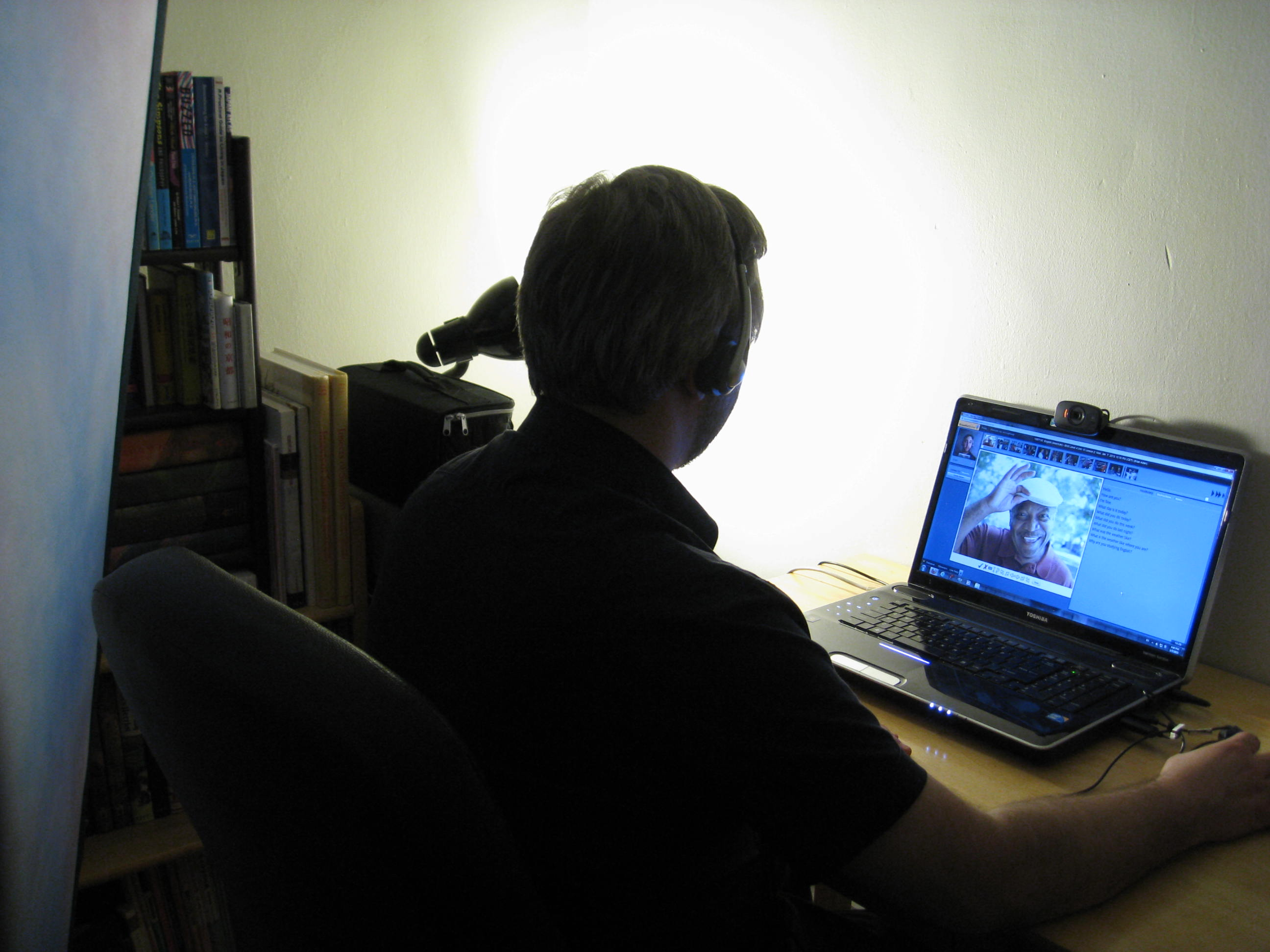 A picture of an English language coach working for Rosetta Stone. His collapsible background, camera and headset can be seen in the picture. This picture was taken with a Canon PowerShot SD850 IS digital ELPH camera.